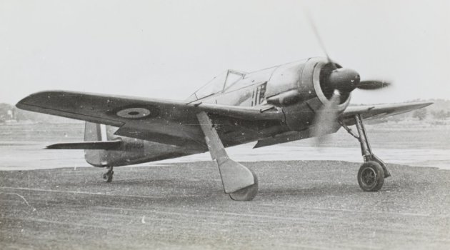 PictionID:38235420 - Catalog:Array - Title:Array - Filename:15_002300.TIF - -------Image from the Charles Daniels Photo Collection.----Album: German Aircraft.-----------PLEASE TAG these images with any information you know about them so that we can permanently store this data with the original image file in our Digital Asset Management System.-----------------SOURCE INSTITUTION: San Diego Air and Space Museum Archive